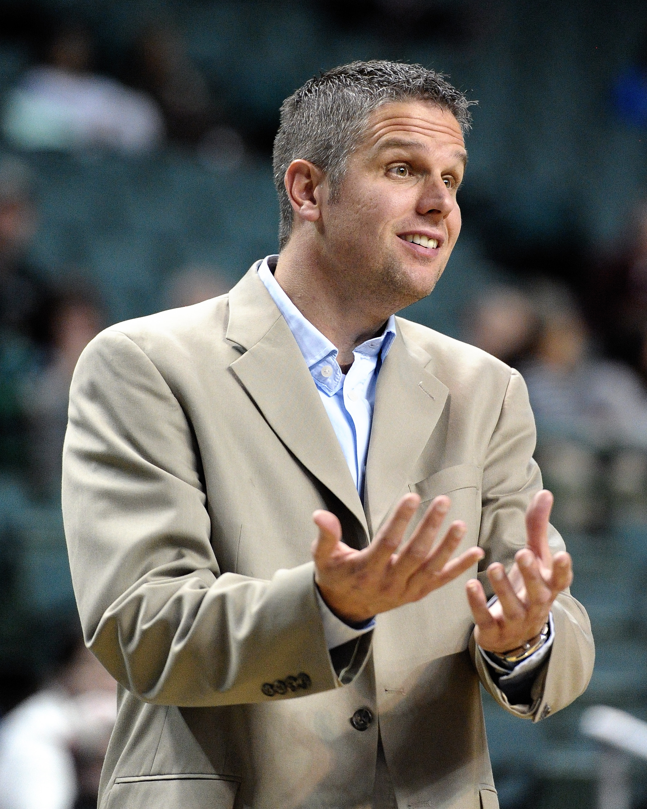 Bob Boldon, coach of Ohio Bobcats women's basketball team